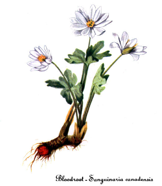 Watercolor painting of Sanguinaria_canadensis-4.